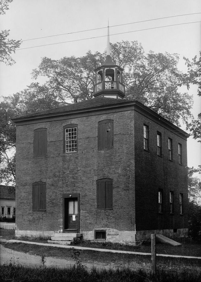 View of the exterior of the Old Academy, seen from the south, Warren & Hodge Streets, Wiscasset, Lincoln County, Maine. Historic American Buildings Survey, Library of Congress, Washington, D. C.